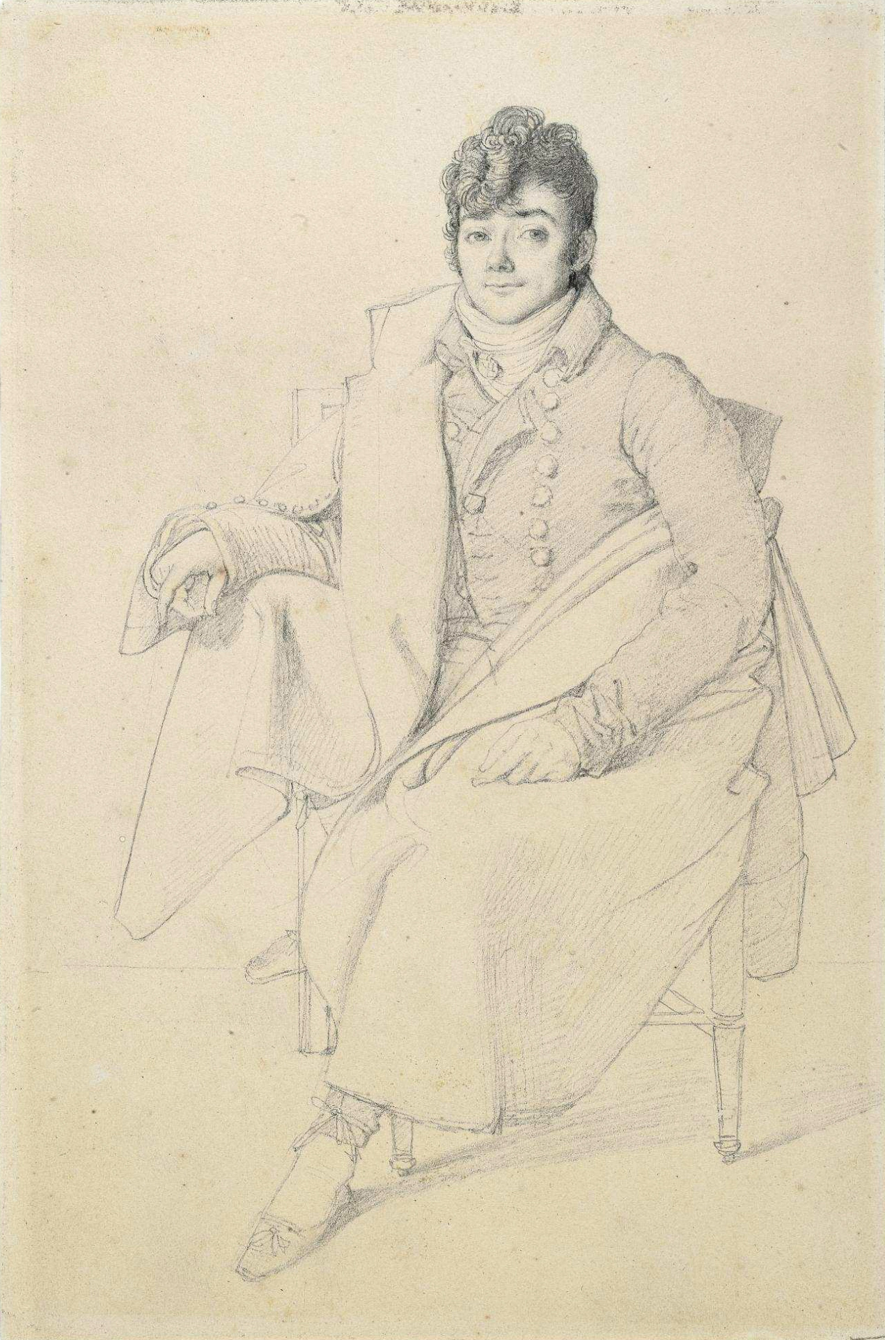 The sculptor Charles Dupaty (1771-1825) 230 x 151 mm 19th century Black lead inscribed on the reverse: essiné à Rome 1815 par Ingres / Mr.. Chs.. Dupaty